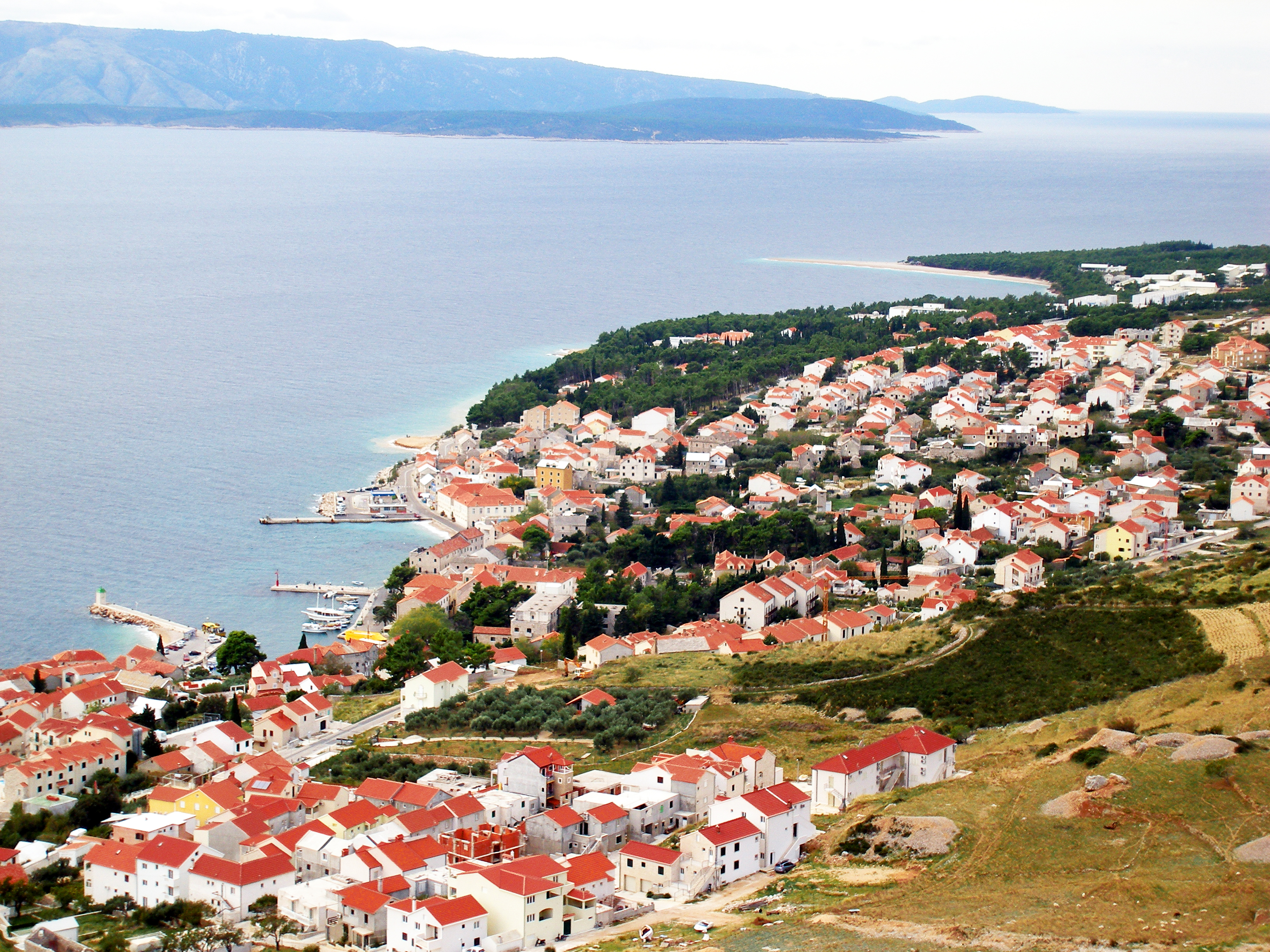 Photo of Bol town on island BraÄ , Dalmatia, Croatia. Photo taken by: Roni MarinkoviÄ‡ Please give credit if used.